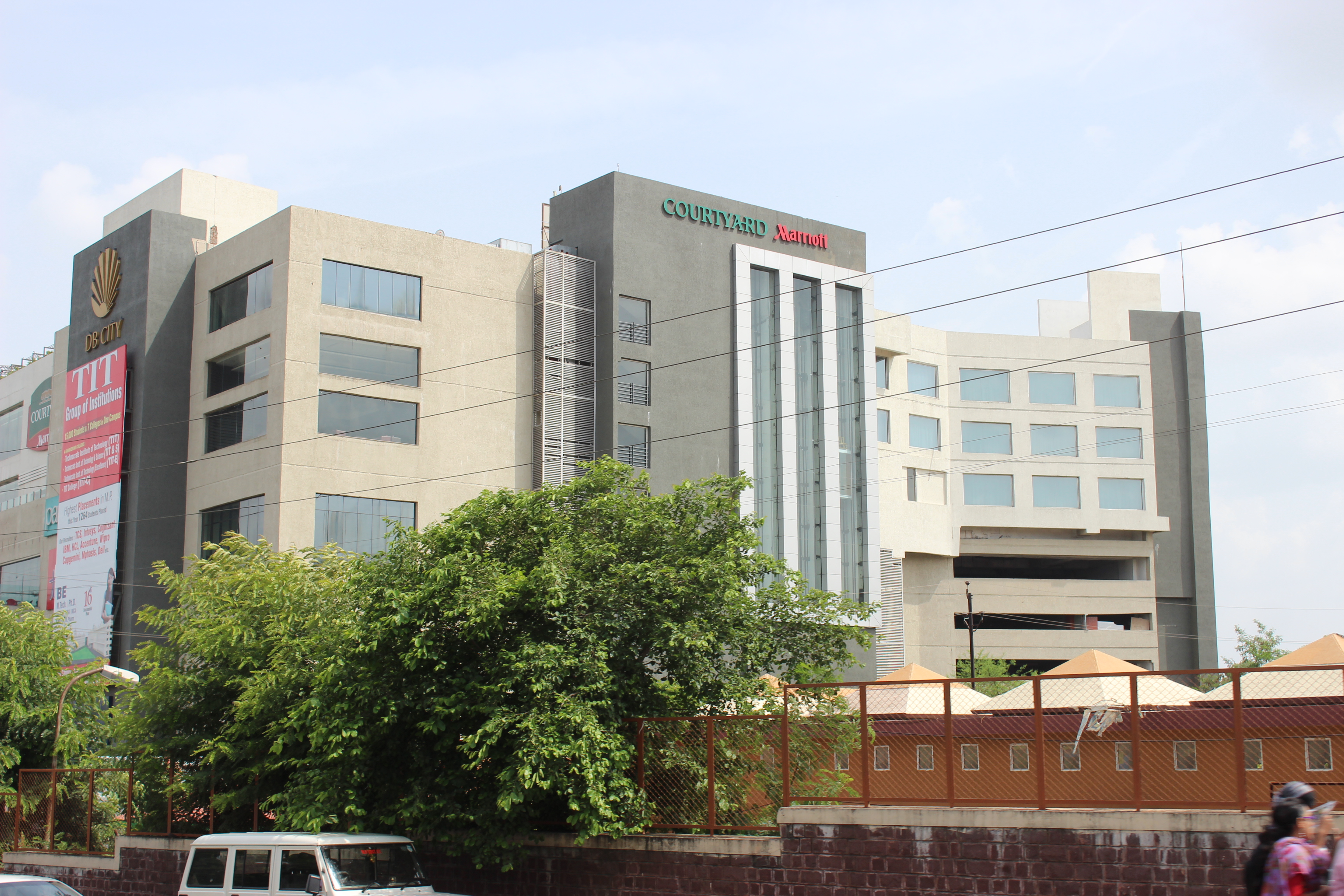 Courtyard marriott DB Mall Bhopal